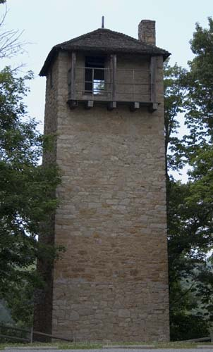 Shot Tower in Wythe Co. Virginia, USA Photo taken by: Drew Laing